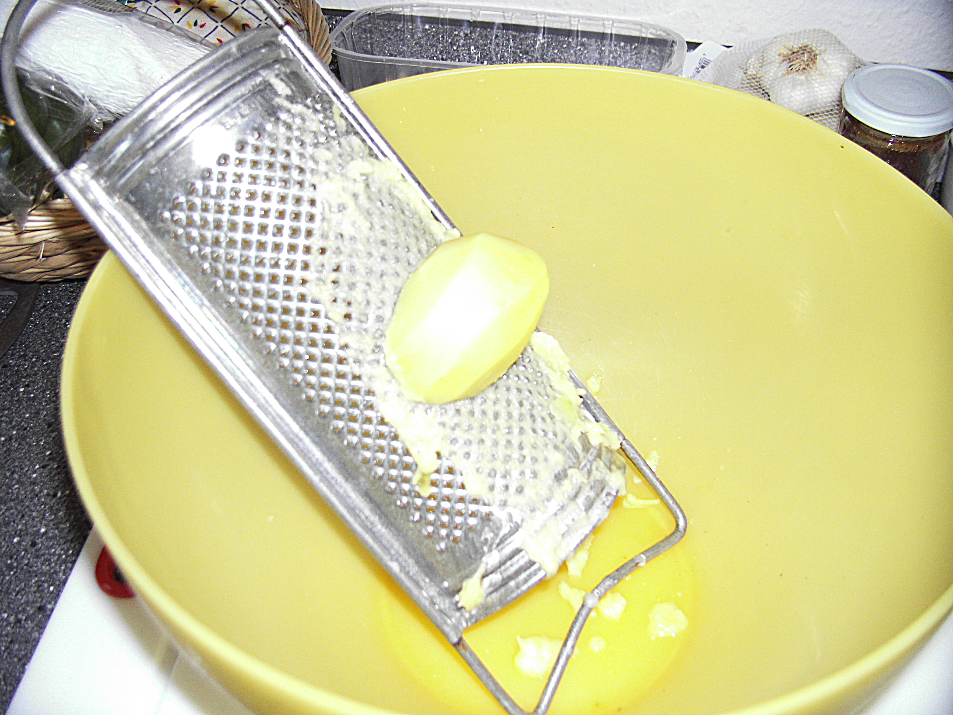 Potato grater with potato